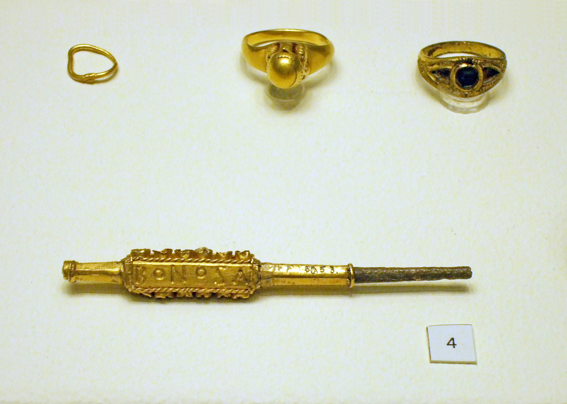 Germanic grave goods from the late Roman fortress of Keszthely-Fenékpuszta Zala County, Hungary In the center of the discovery site of Keszthely-Fenékpuszta at the southwestern end of Lake Balaton is the late Roman fortress Fenékpuszta. The rectangular layout with round side and corner towers was erected during the 4th century in the territory of the Roman province Pannonia I and belongs to the circle of so-called inner fortresses. Since the late 19th century, over 1000 burials extra and intra muros as well as 24 stone structures within the fortress have been examined. To the east of the horreum, probably in the vicinity of a wooden church, a total of 36 body burials have been dug up. Most of the burials were without grave goods, but seven graves were richly endowed. The goods are Byzantine or Byzantine-influenced products. They count among the most splendid commodities of the 6th century in Pannonia. Grave 5 of the horreum cemetery (right front), last third of the 6th to the first third of the 7th century Burial of a child in extended supine position, with coffin vestiges and stone packing. 4. Silver garment pin with attached decorative part of gold plate. Three sides are elaborately decorated, while the fourth side bears the inscription BONOSO. Photographed while on display from 22 August 2008 to 11 January 2009 in the exhibition "Die Langobarden. Das Ende der Völkerwanderung" at the Rheinisches LandesMuseum Bonn. On loan from the Balatoni Múzeum Keszthely.